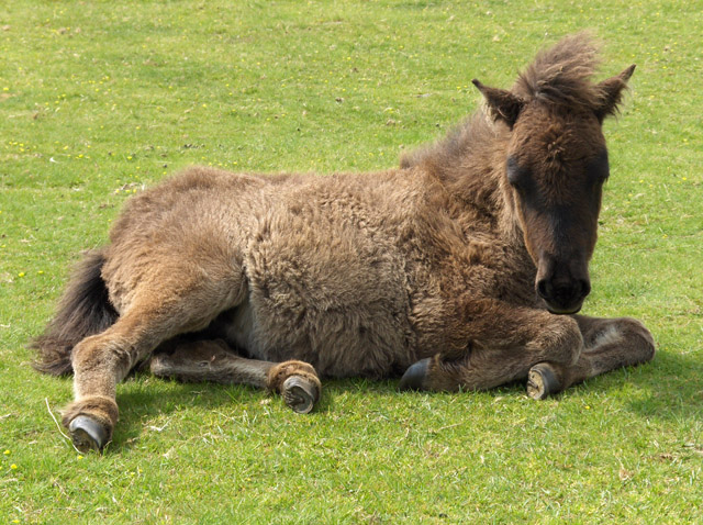 Shetland pony foal. They used to roam Caldbeck Commons, and were usually found near the road.